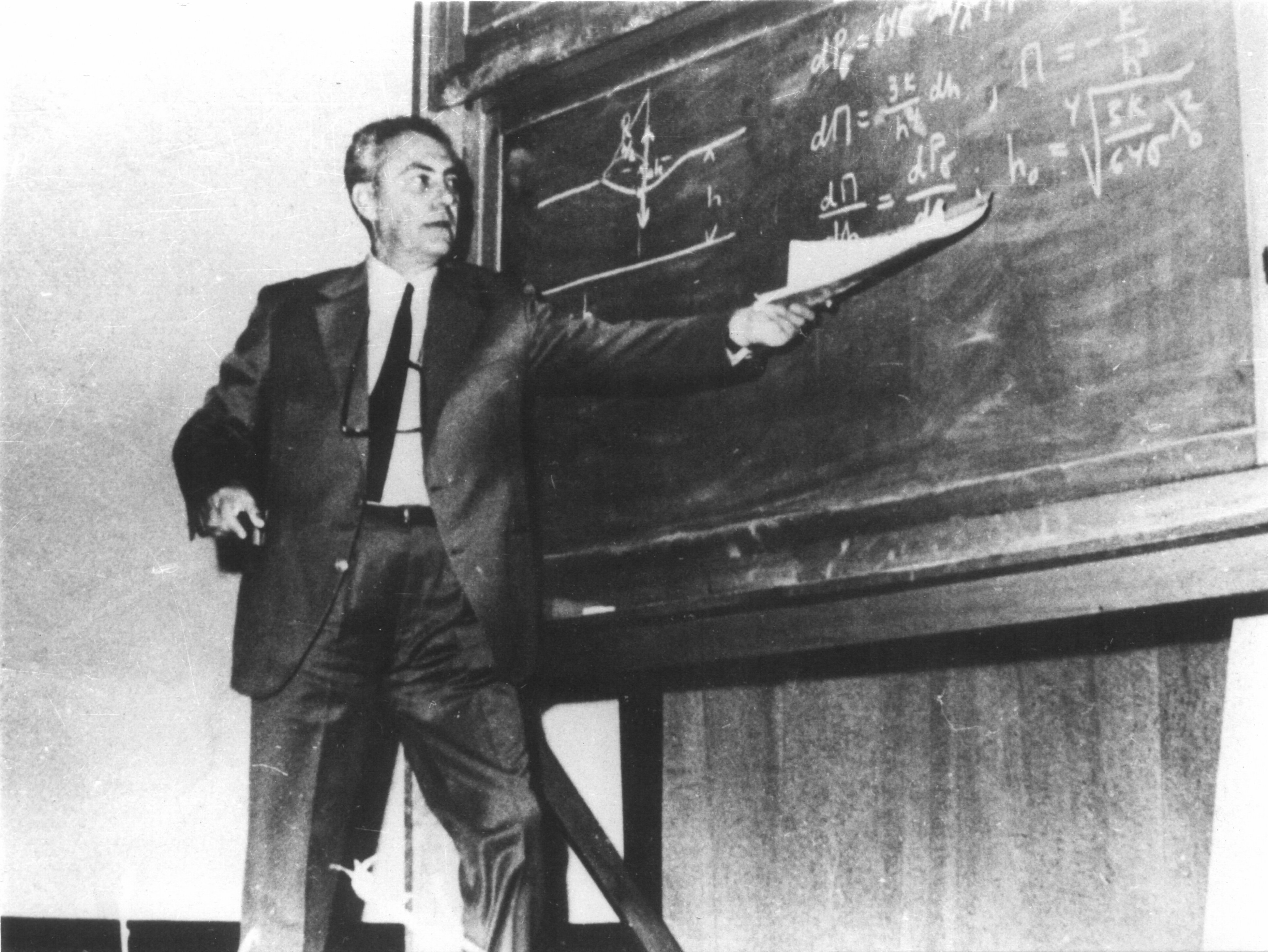 Aleksei Scheludko presenting the critical thickness theory